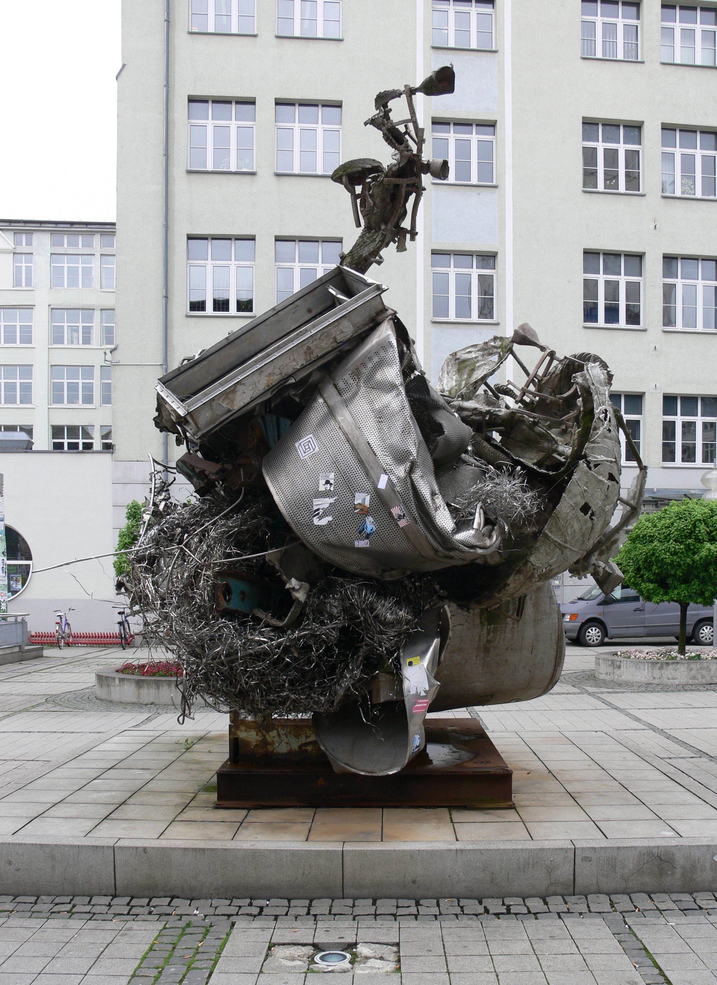 Sculpture Newburgh, 1995, premium steel, by Frank Stella on Ernst-Abbe-Platz in Jena, Thuringia, Germany.